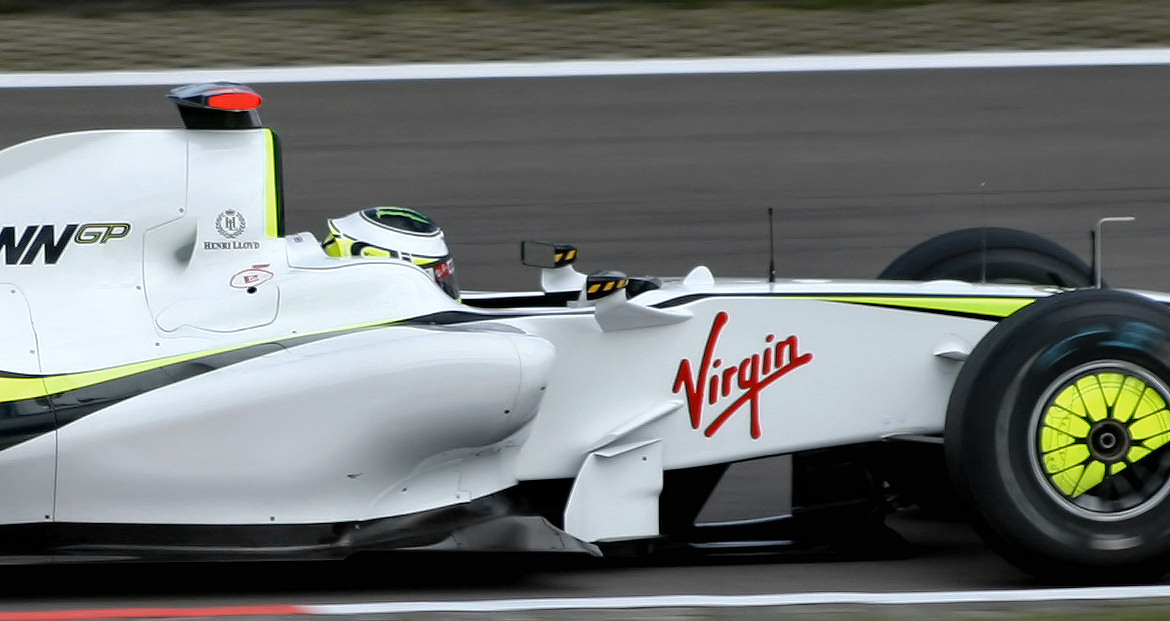 Jenson Button driving for Brawn GP at the 2009 German Grand Prix.